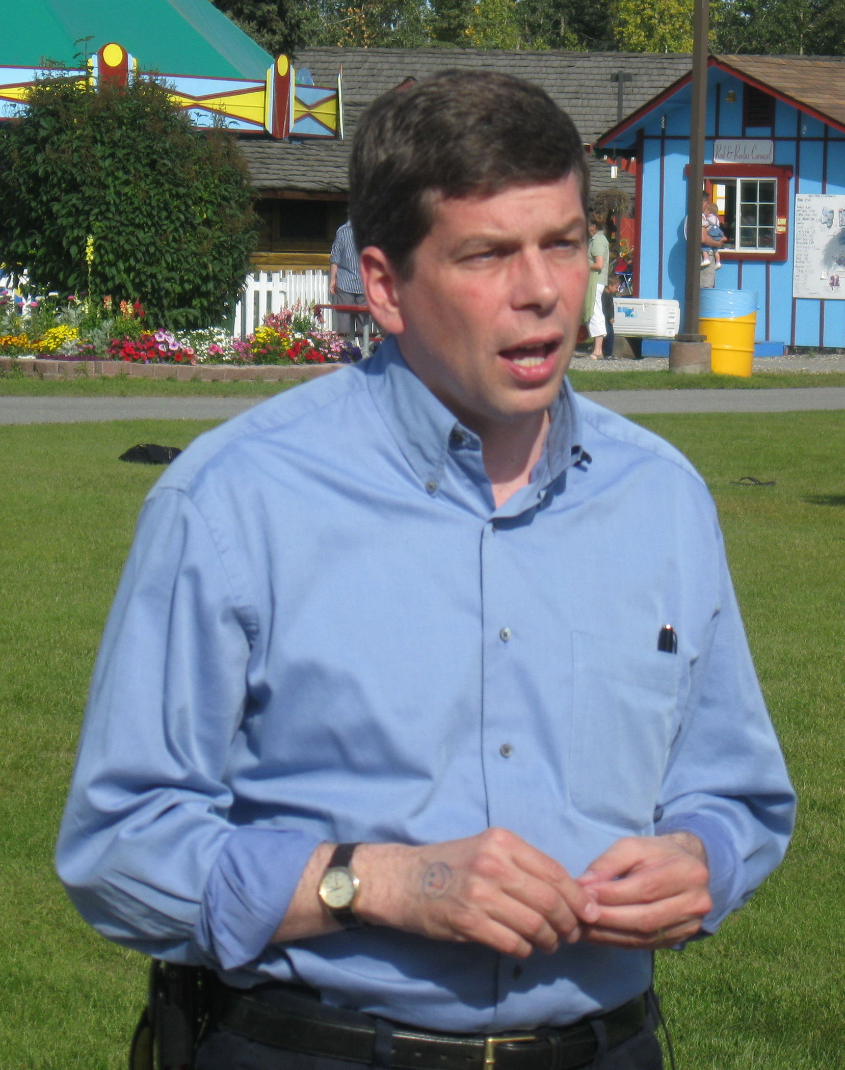 Mark Begich speaks to reporters at the Fairbanks Labor Day Picnic.